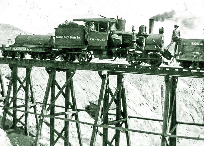 Borate & Daggett Rail Road in Mule Canyon on way to Borate – Courtesy National Park Service, Death Valley National Park